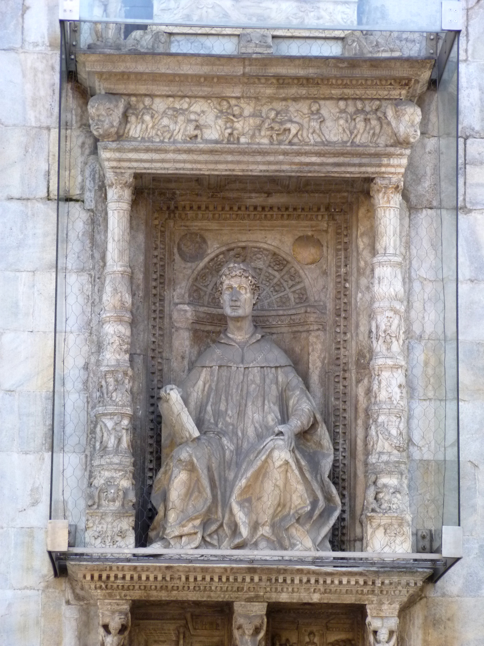 Statue of Plinius Minor on the Duomo (Como) possibly the work of Giovanni Rodari, dating from before 1480; Como, Italy